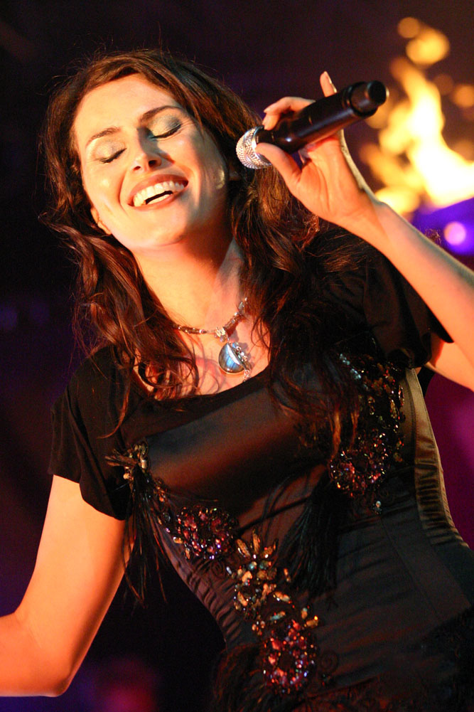 Within Temptation Live @ Earthshaker Fest - 07/2007 - Kreuth bei Amberg, Alemanha